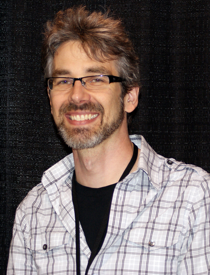 Stuart Immonen attending the Calgary Comic & Entertainment Expo in BMO Centre, Calgary, Alberta, Canada.